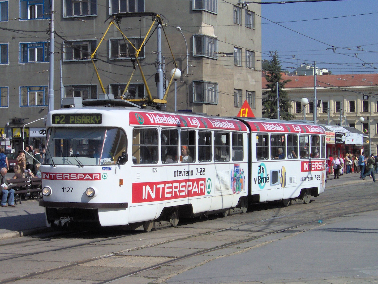 Tatra K2YU tram in Brno, Czech Republic